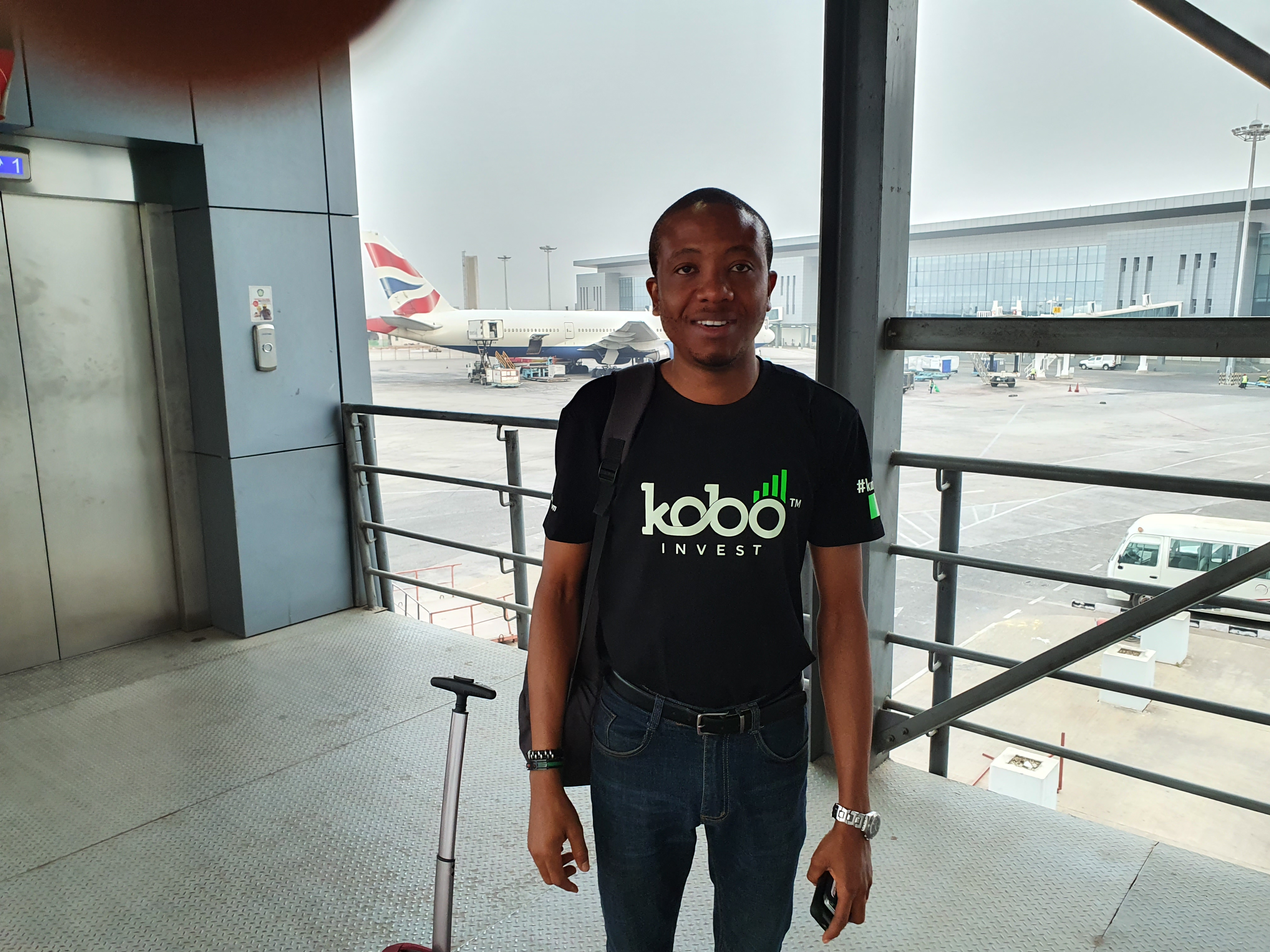 official assignment